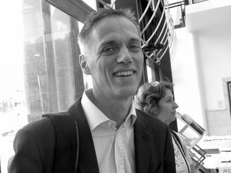 Helge Holden at the Abel Prize Oslo 2012